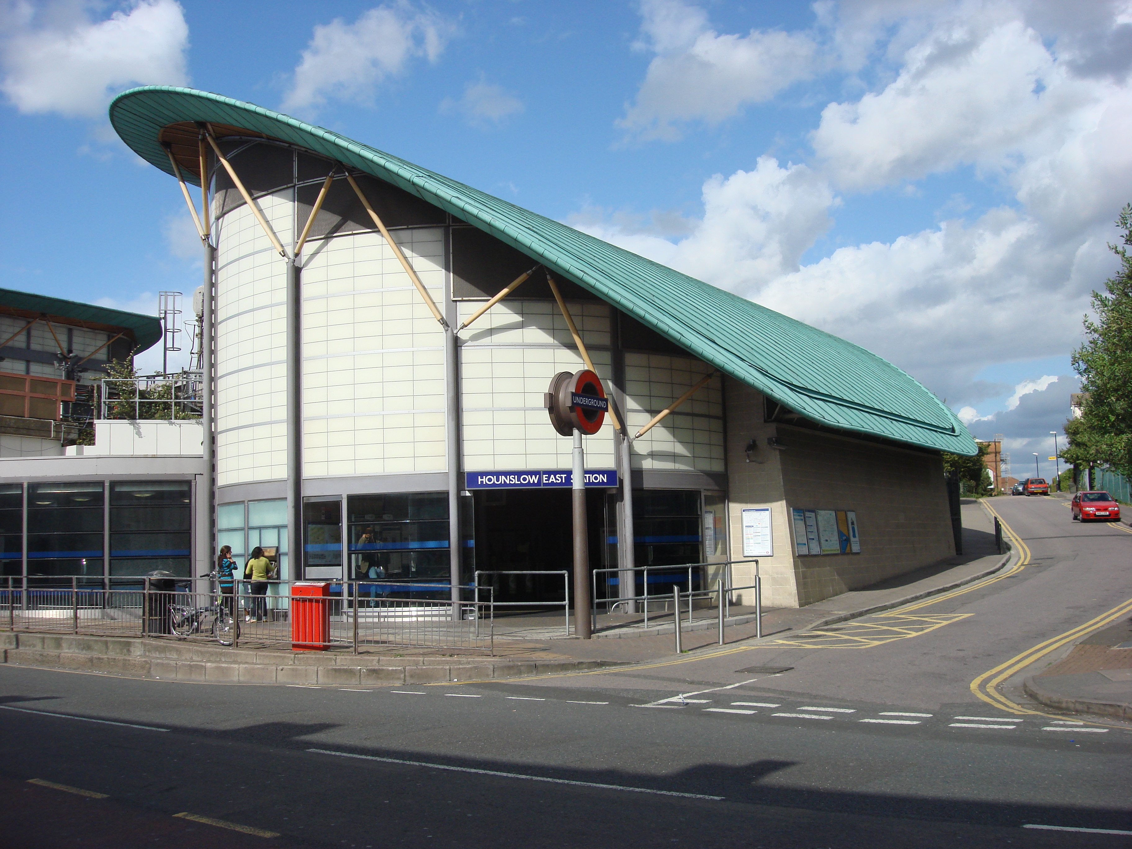 Hounslow East tube station, main building